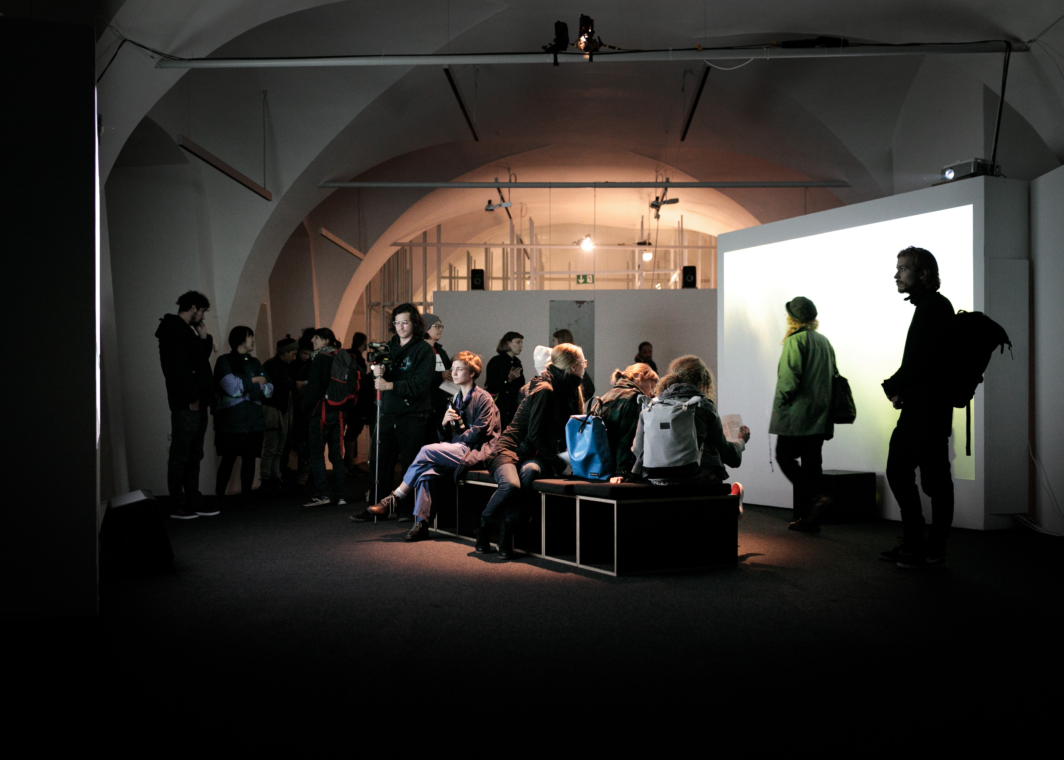 exhibition view of "SKANA", 2018